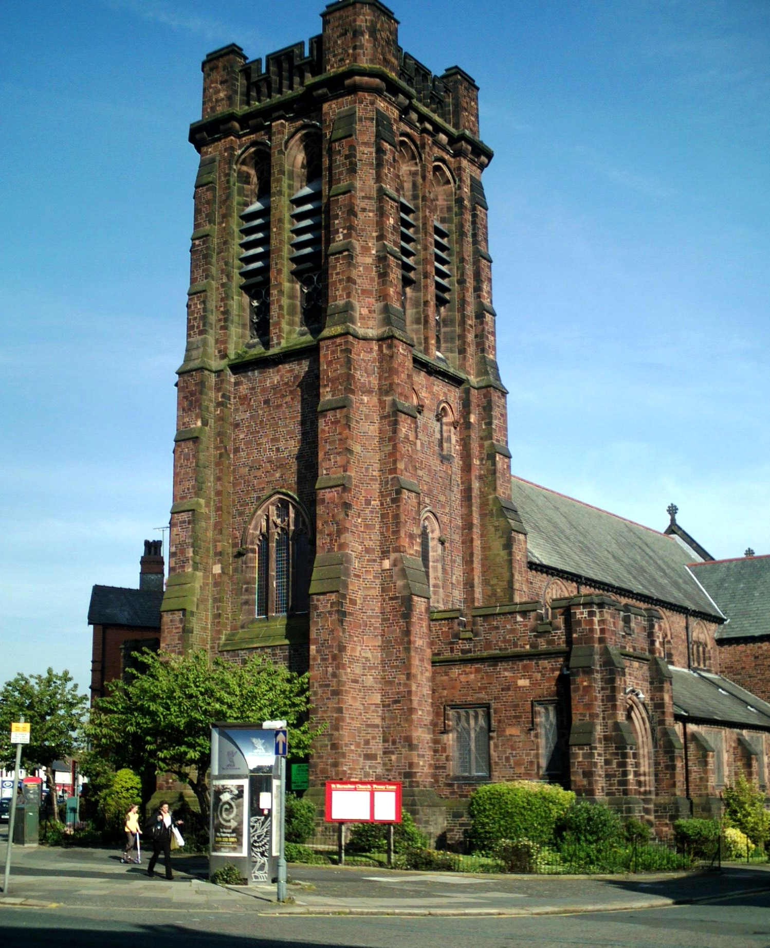 Closer view of St Barnabas, Penny Lane